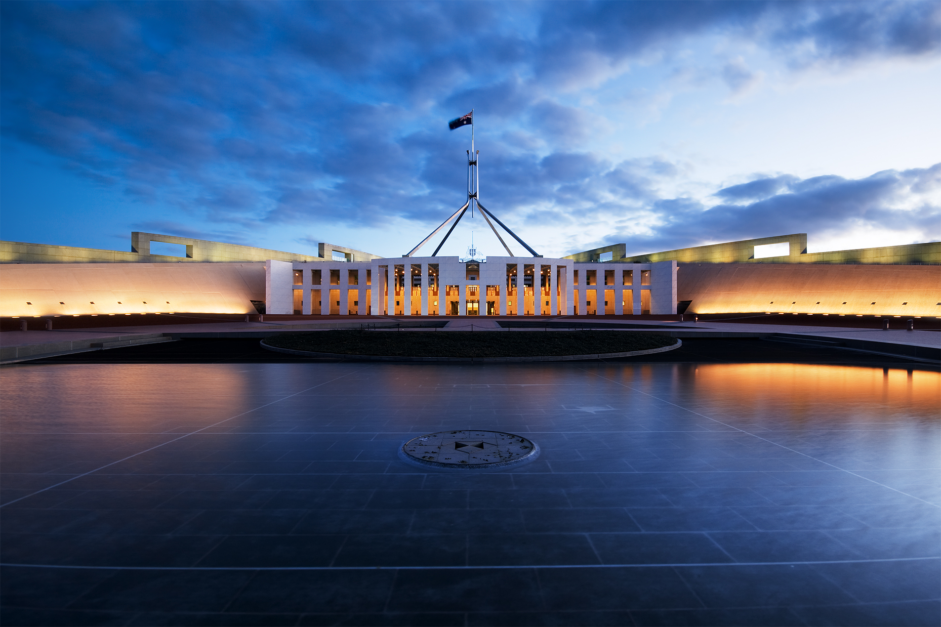 Parliament House Canberra, Australia.